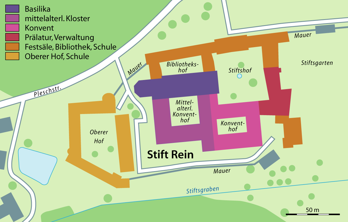 Map of Rein Abbey